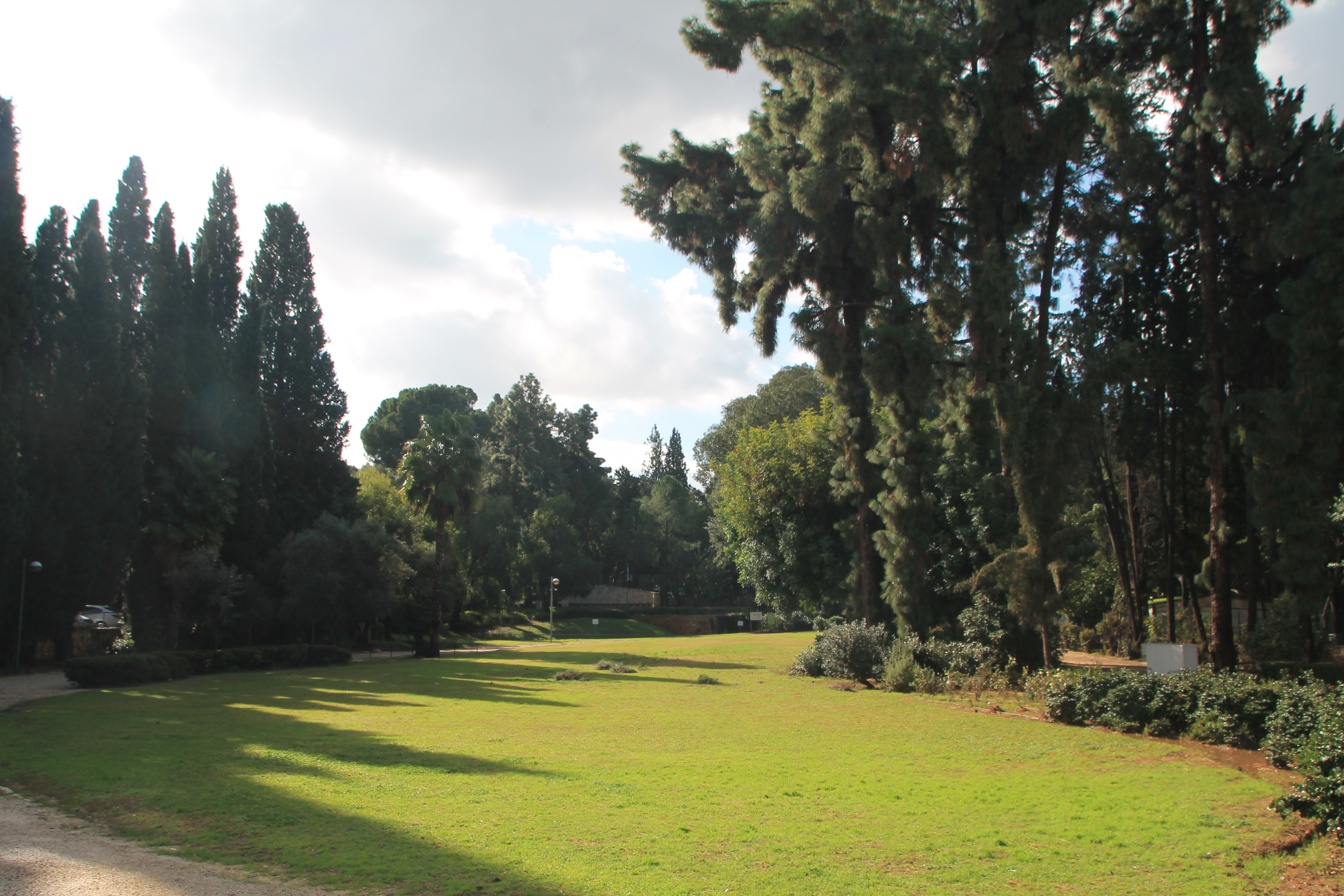 Kfar Saba Memorial Garden